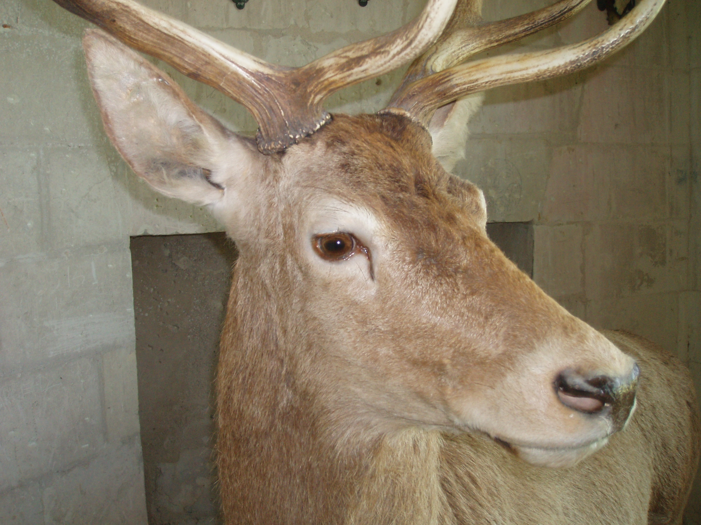 Stuffed deer at the Chateau de Chambord, France.